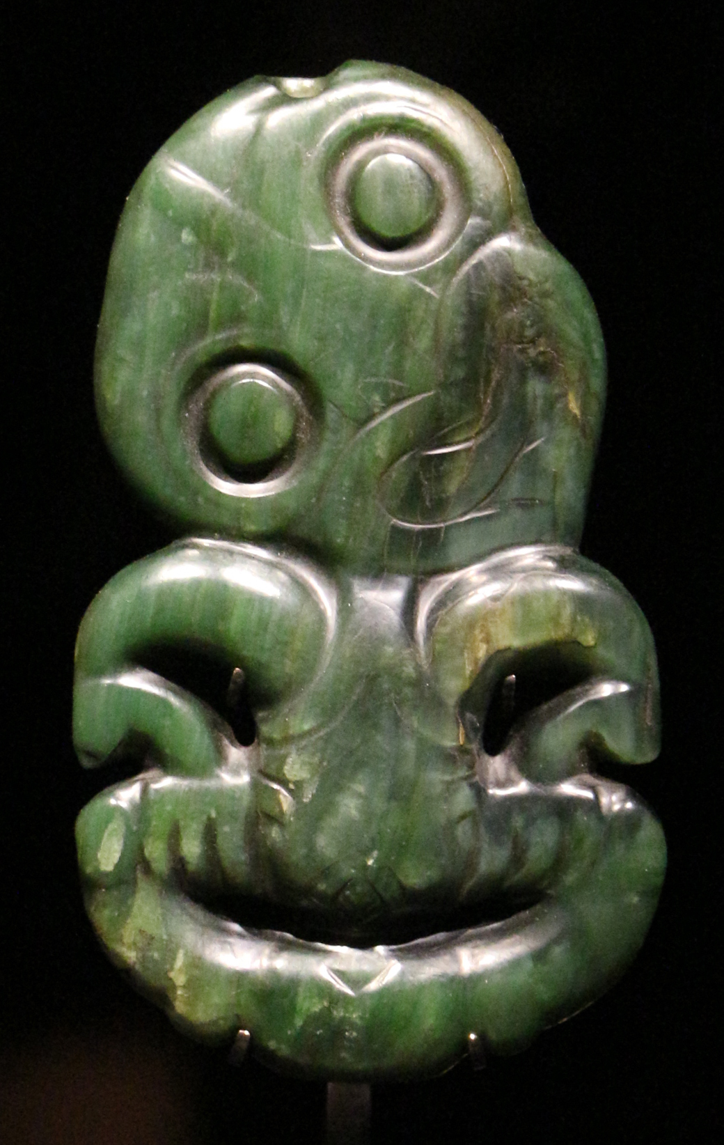 Courtesy of Galerie Meyer - Oceani & Eskimo Art, Paris (n. 124)